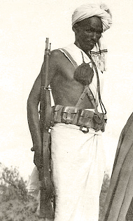 Photo of a Dubat (colonial troop of Italian Somalia), ca 1938